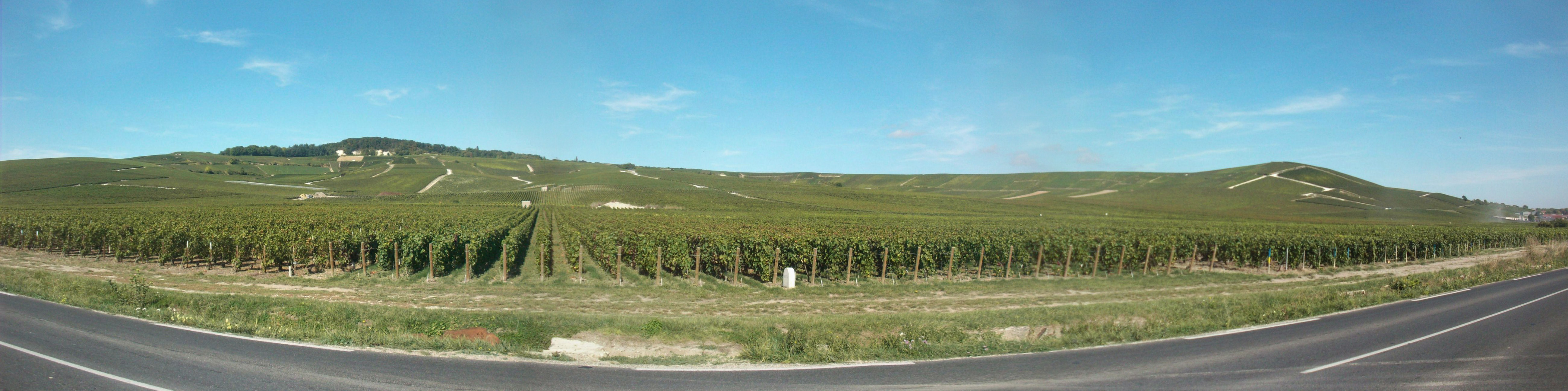 Vineyard at Aÿ